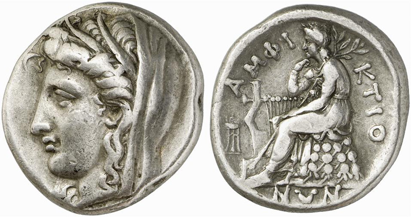 Phokis, Delphi. Amphictionic issues. Circa 336-334 BC. AR Stater (12.10 g). Head of Demeter to left, wearing wreath of wheat ears and veil ΑΜΦΙ-ΚΤΙΟ-ΝΩΝ, Apollo Pythios, laureate and wearing a chiton, seated left on an omphalos draped with his himation and covered with a network of knotted woolen cords. His right elbow is propped on his kithara, he rests his chin on his right hand and he holds a long laurel branch over his shoulder with his left hand, which rests on his left knee. In the field to left, tripod.